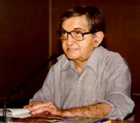 Photo of Hindi writer, Nirmal Verma (1929 - 2005), from U.S. Library of Congress - South Asian Literary Recordings Project.